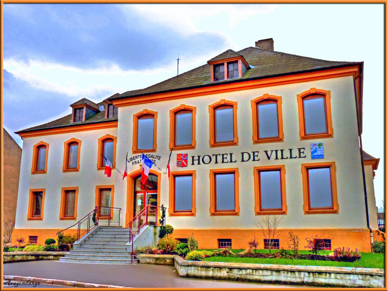 Mairie de Talange